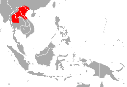 Bourret's Horseshoe Bat (Rhinolophus paradoxolophus) range